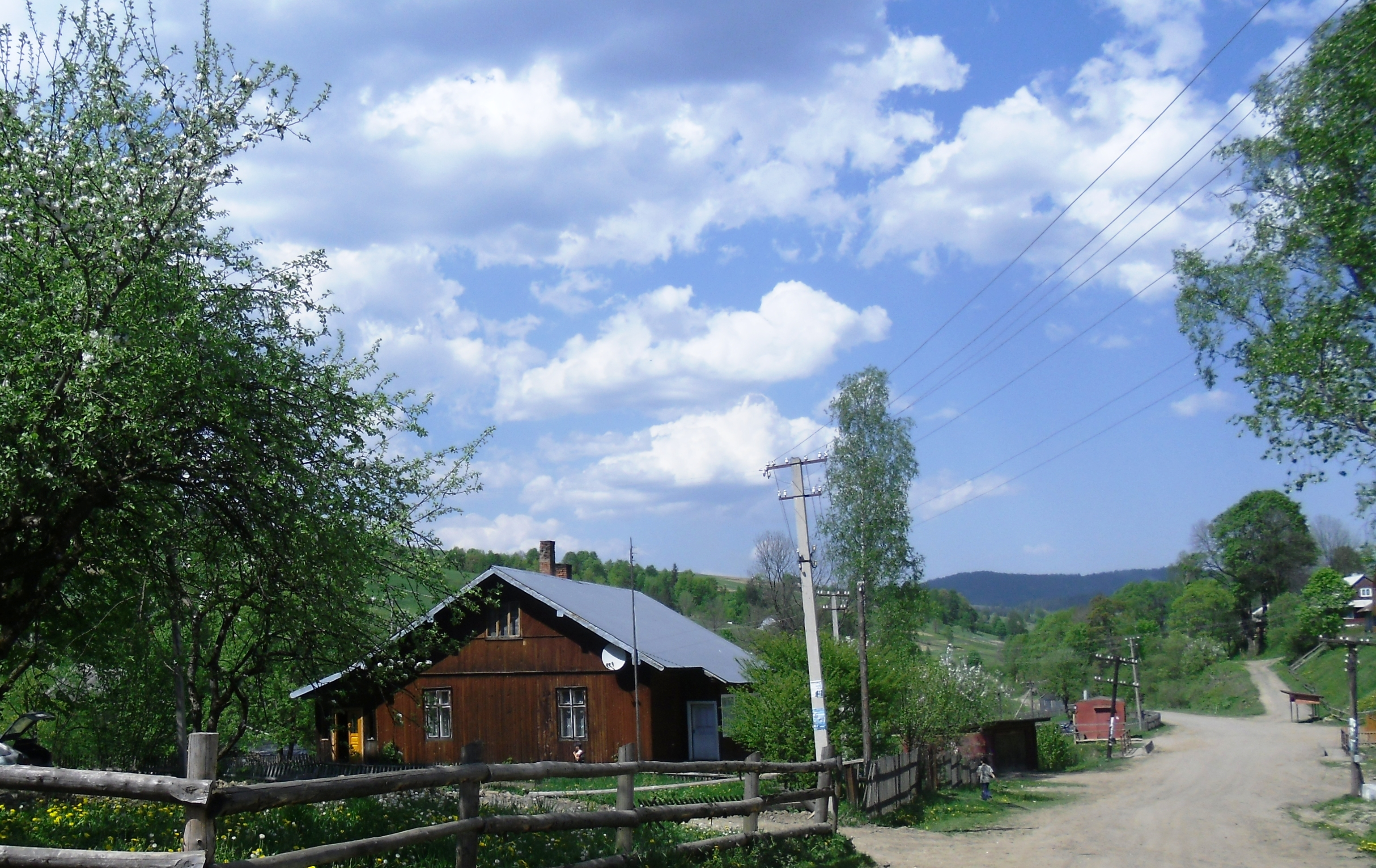 Khaschovania, Skole Raion. Countryside landscape.